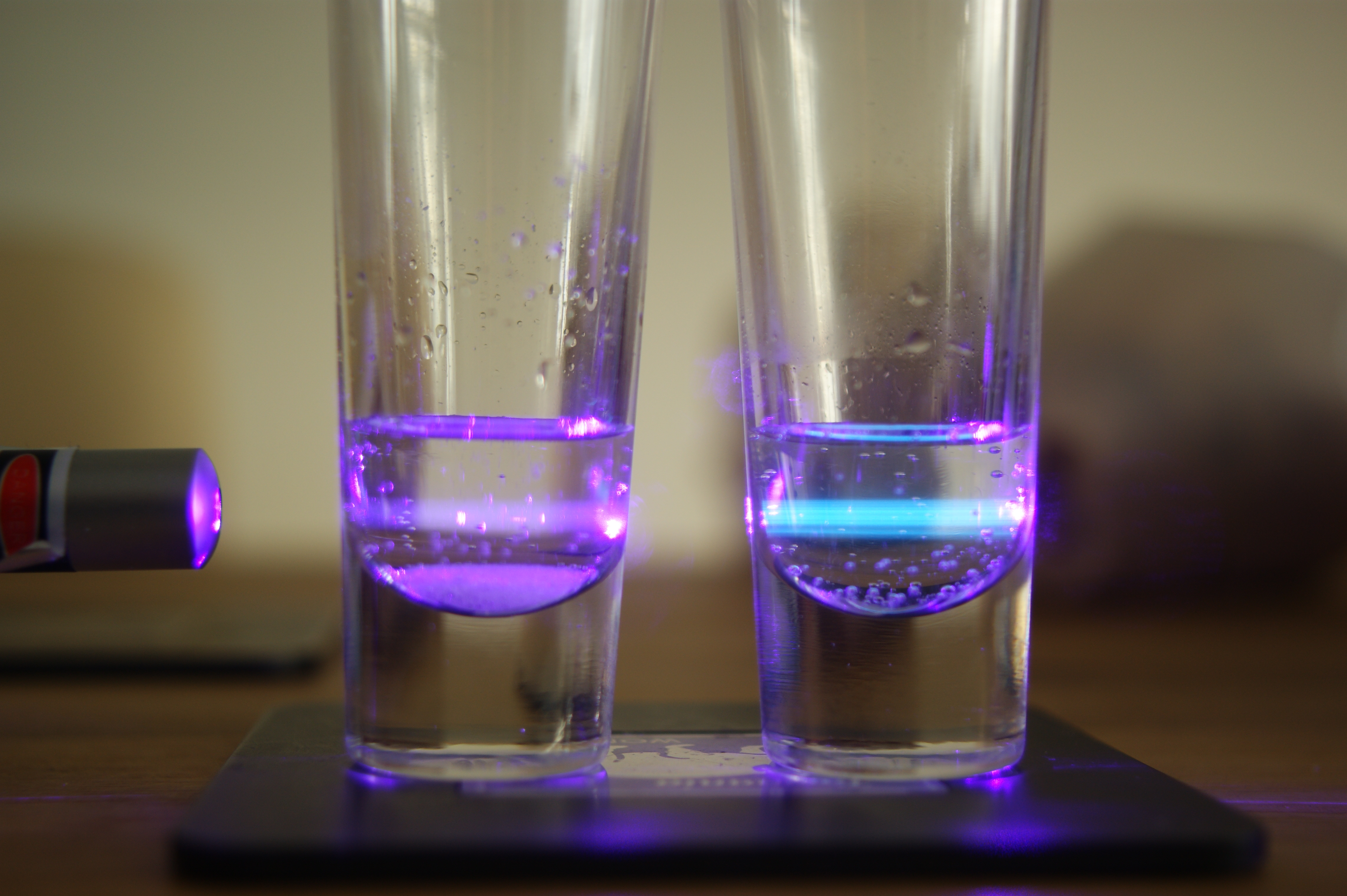 The quenching of quinine fluorescence by chloride ions. (right) Tonic ,(left) Tonic + table salt (NaCl). Excitation wavelength 411 nm, emission wavelength ~470 nm.